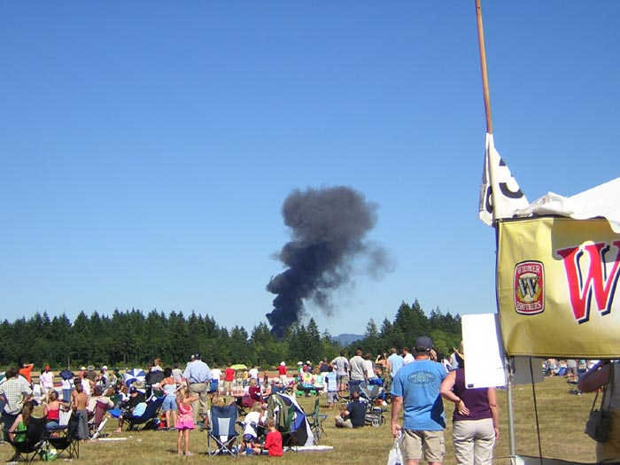 Smoke from a crashed Hawker-Siddeley Hunter at the Oregon International Airshow Hillsboro